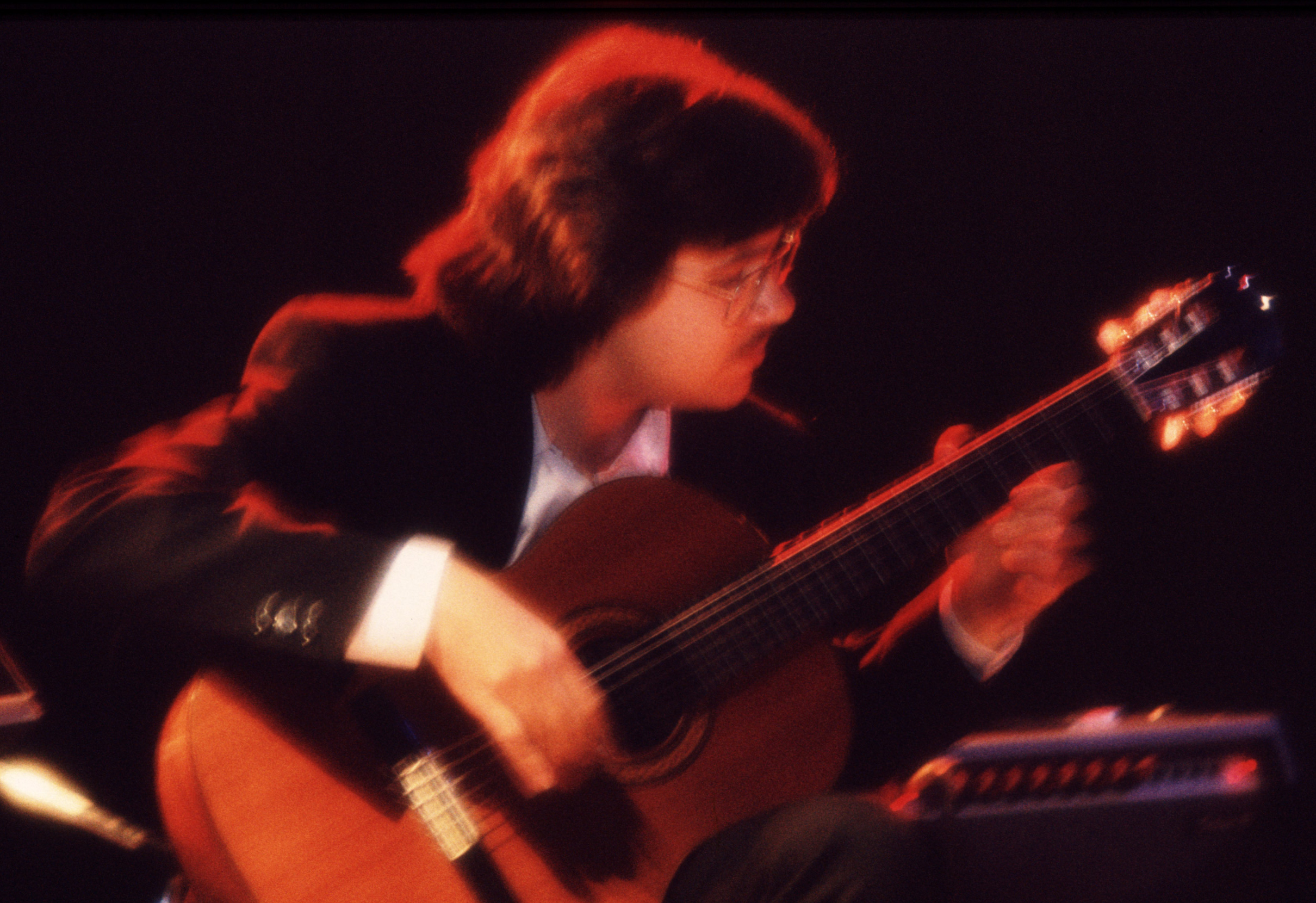 Finnish samba and bossa nova guitarist Jarkko Toivonen plays at Jumo Jazzclub, Helsinki, Finland in 1992.